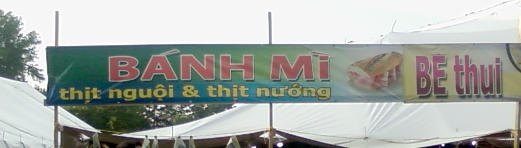 The sign in front of a tent selling bánh mì at the 2014 Marian Days. The sign reads “Sandwiches / cold cuts & grilled meats”.